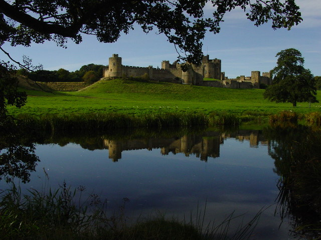 Alnwick Castle. Alnwick Castle as viewed from the riverbank of the River Aln on a still autumn morning.